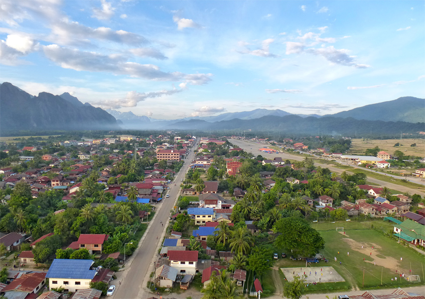 Vang Vieng, Vientiane Province, Laos. View toward the north, from a hot air balloon.